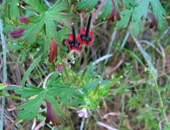 Geranium carolinianum. Santa Monica Mountains National Recreation Area, California, USA. Taken at Stunt Ranch. NPS photo, no copyright.